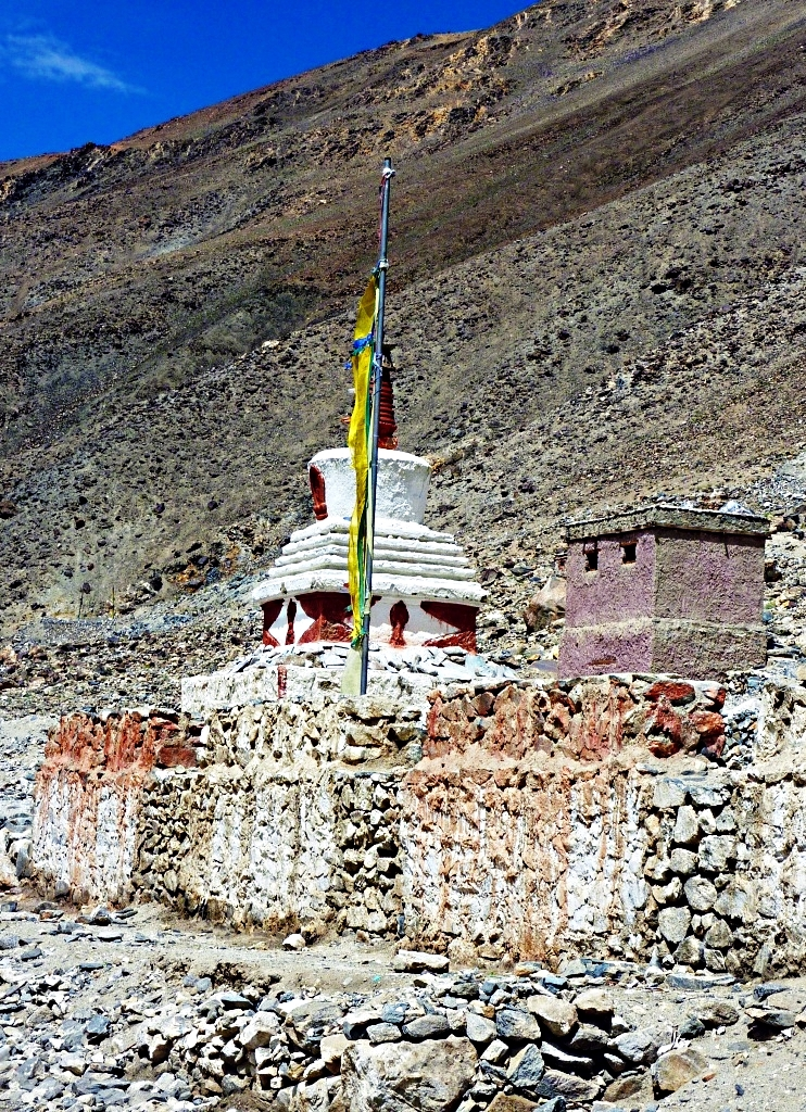 I took this photo on a trip to Ladakh in 2010.